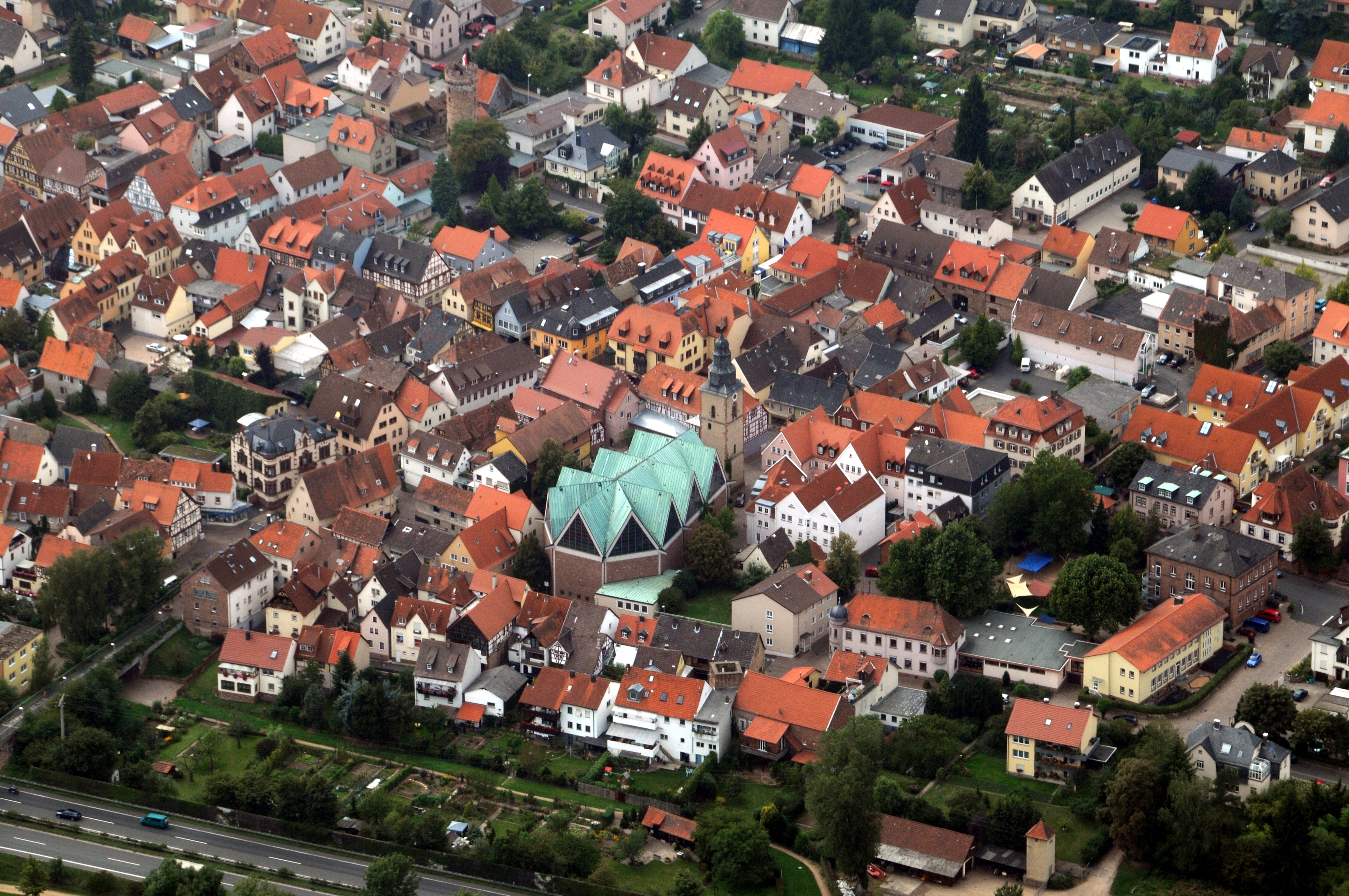 Obernburg am Main, Bavaria, Germany, aerial photograph